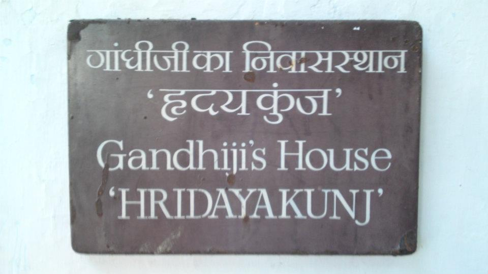 Hridaya Kunj - Sabarmati Aashram